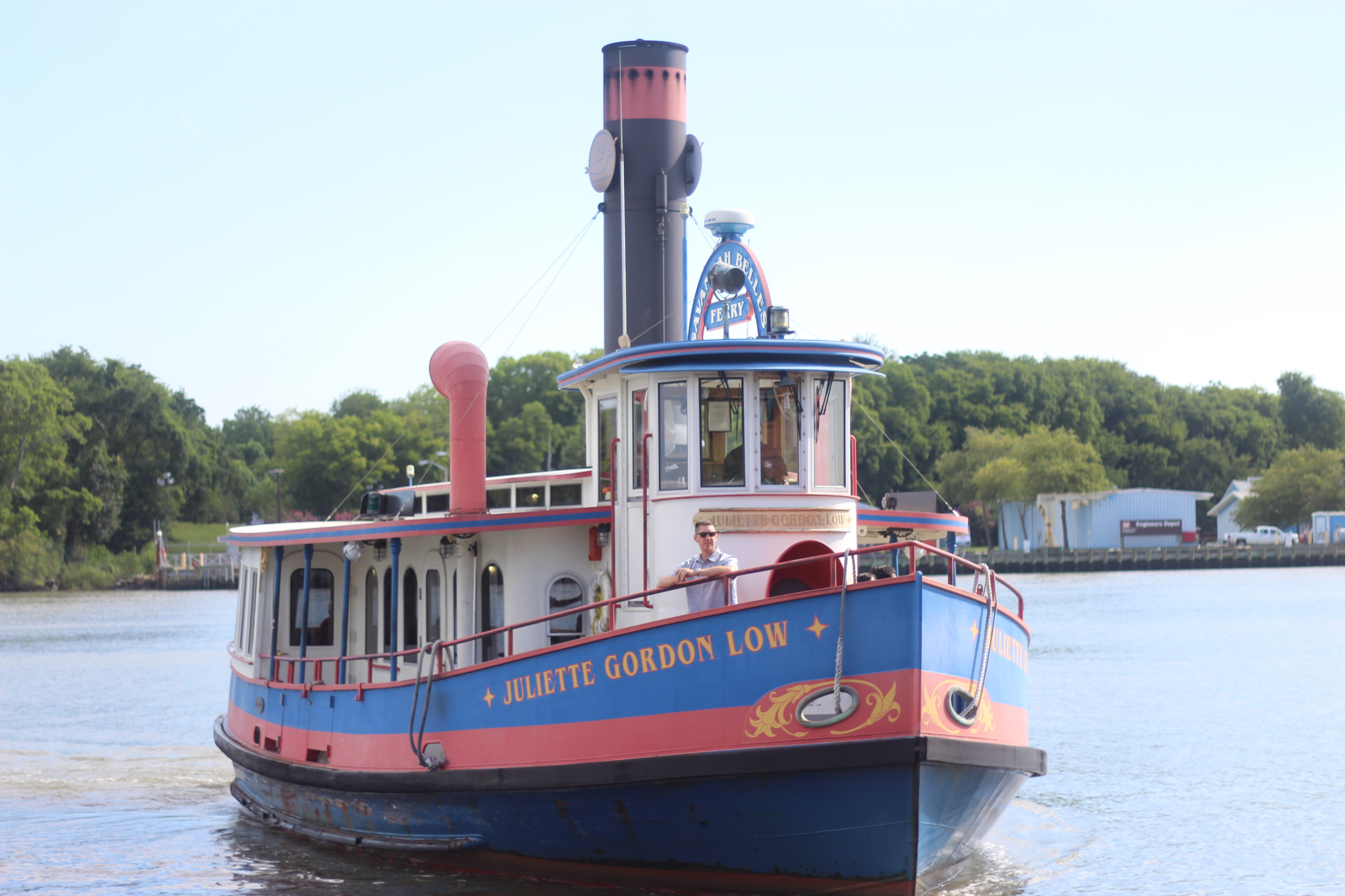 The Juliette Gordon Low ferry of the Savannah Belles Ferry transportation in Savannah, Georgia.